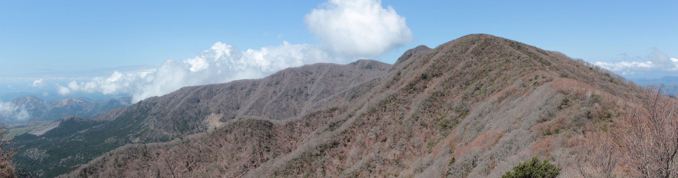 Main ridgeline of the Mount Amagi as seen from the east in Izu Peninsula, Shizuoka Prefecture, Japan.